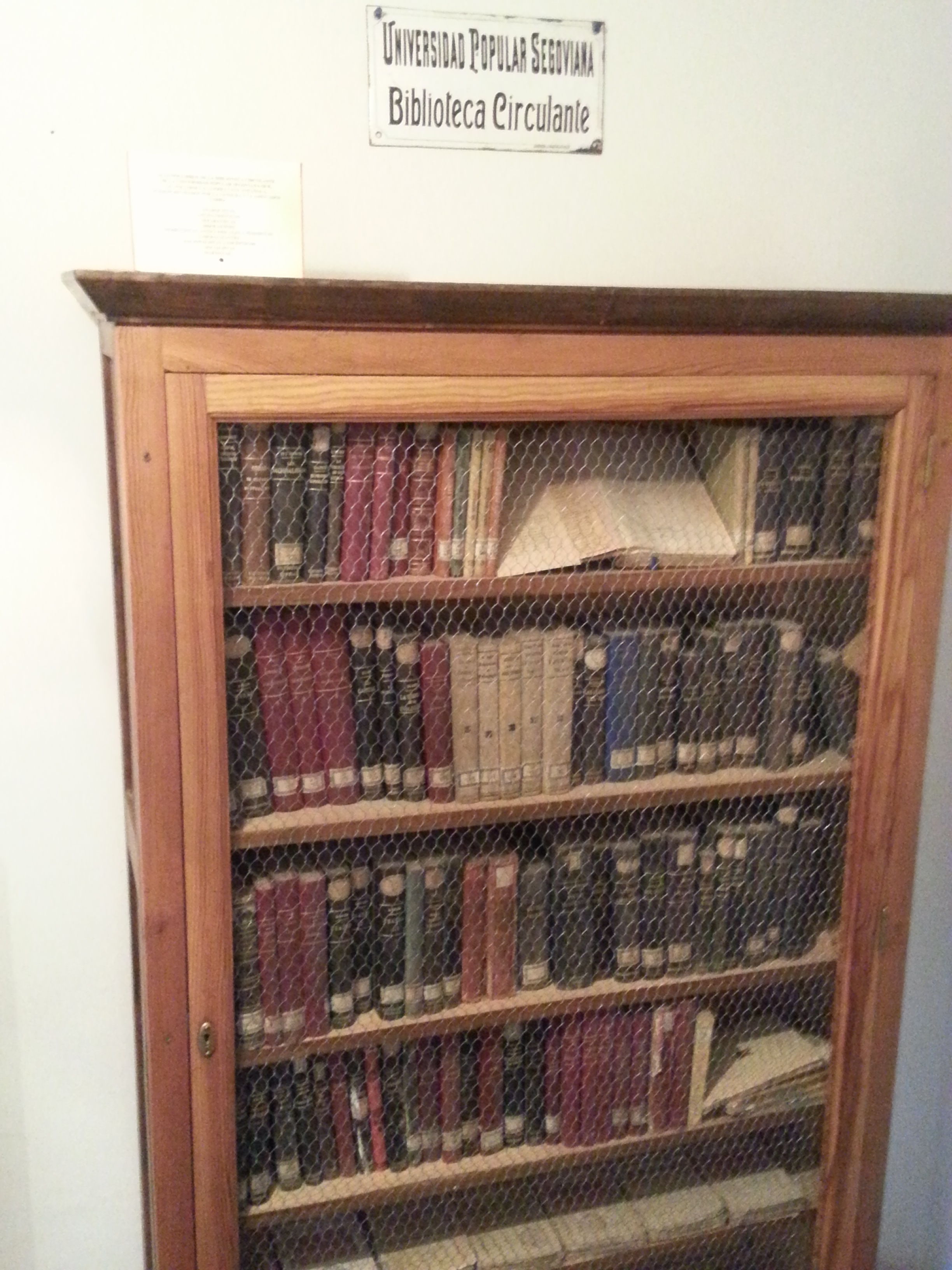 House-Museum of Antonio Machado, on calle de los Desamparados, 5 (Segovia); where he lived between 1919 and 1932 Spanish poet.